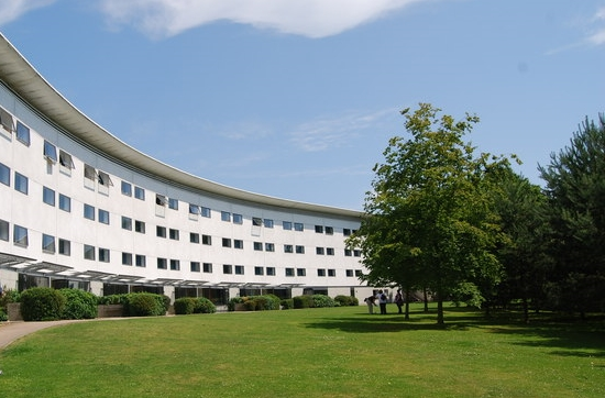 Constable Terrace accommodation at UEA